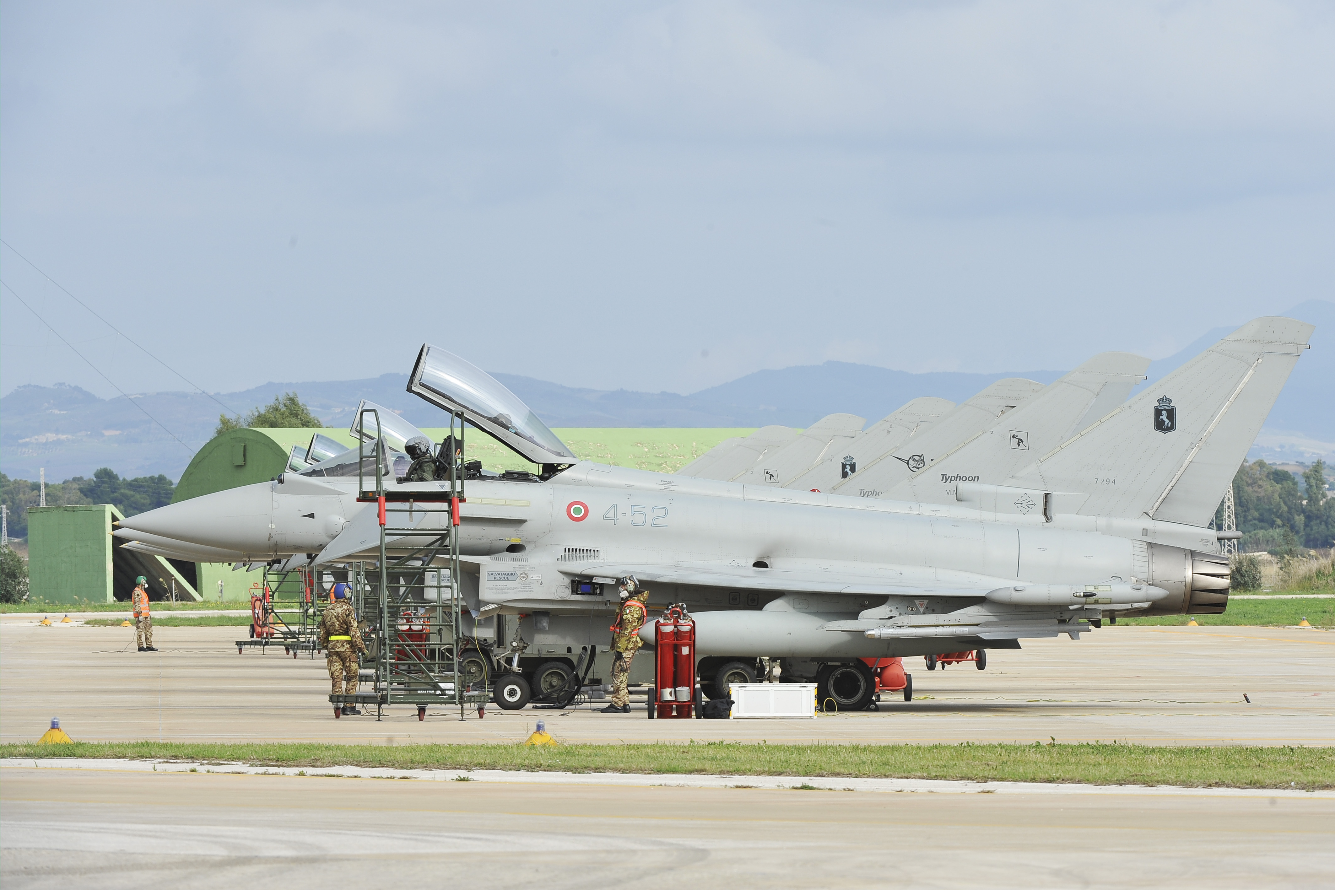 Italian Air Force Typhoons on the apron during a Composite Air Operations (COMAO) mission on October 27, 2015 during Trident Juncture 15. NATO photo by Antonio STELLATO